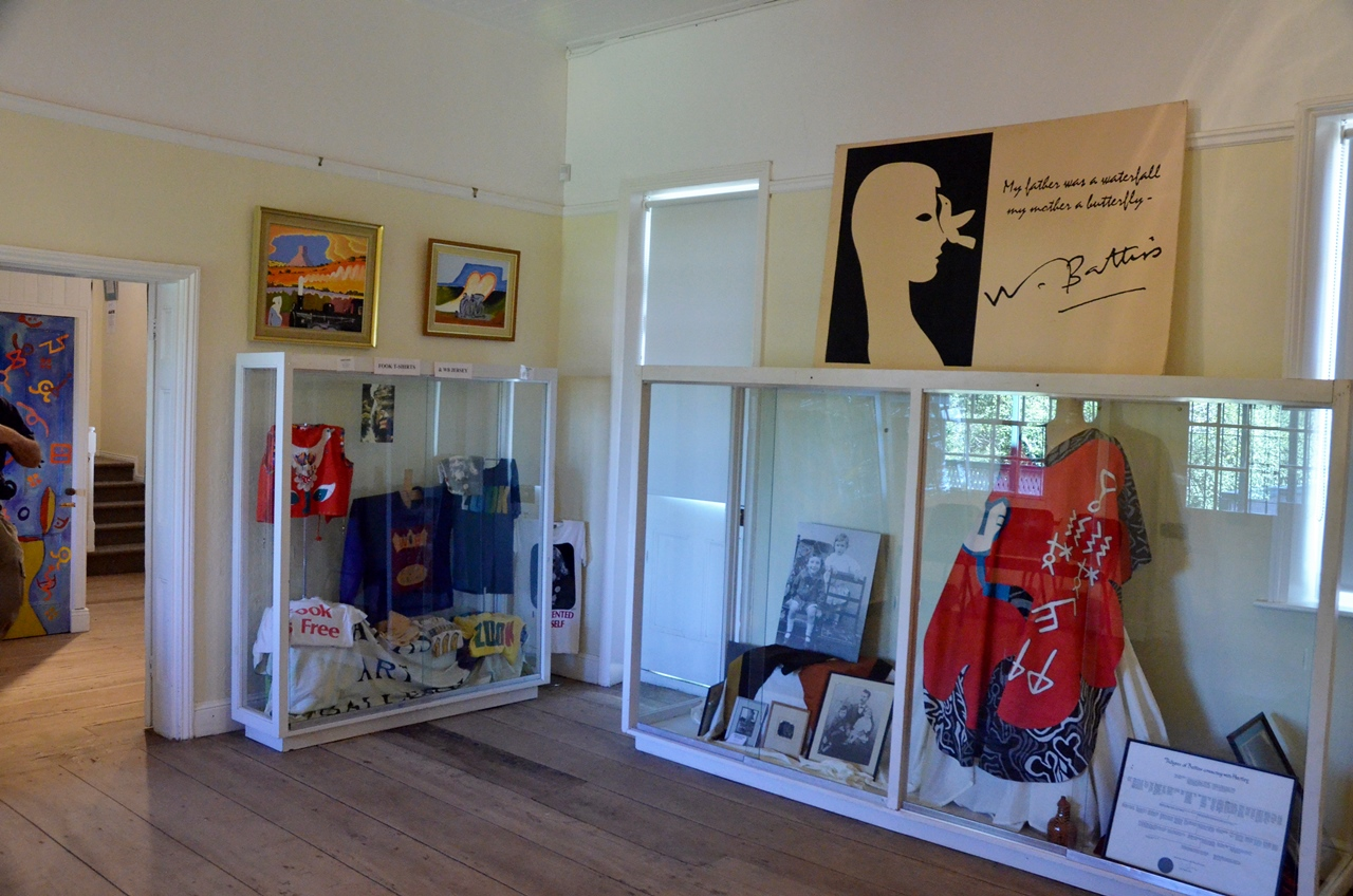 Walter Battiss Art Museum, 45 Paulet Street, Somerset East. This Georgian double-storeyed building was originally erected in about 1815 by Lord Charles Somerset for officers and presumably also soldiers who were stationed on the Eastern Frontier. The Victorian verandah was added later. It now houses a collection of art by Walter Battiss. This media shows a South African Protected Site with SAHRA file reference 9/2/082/0007.